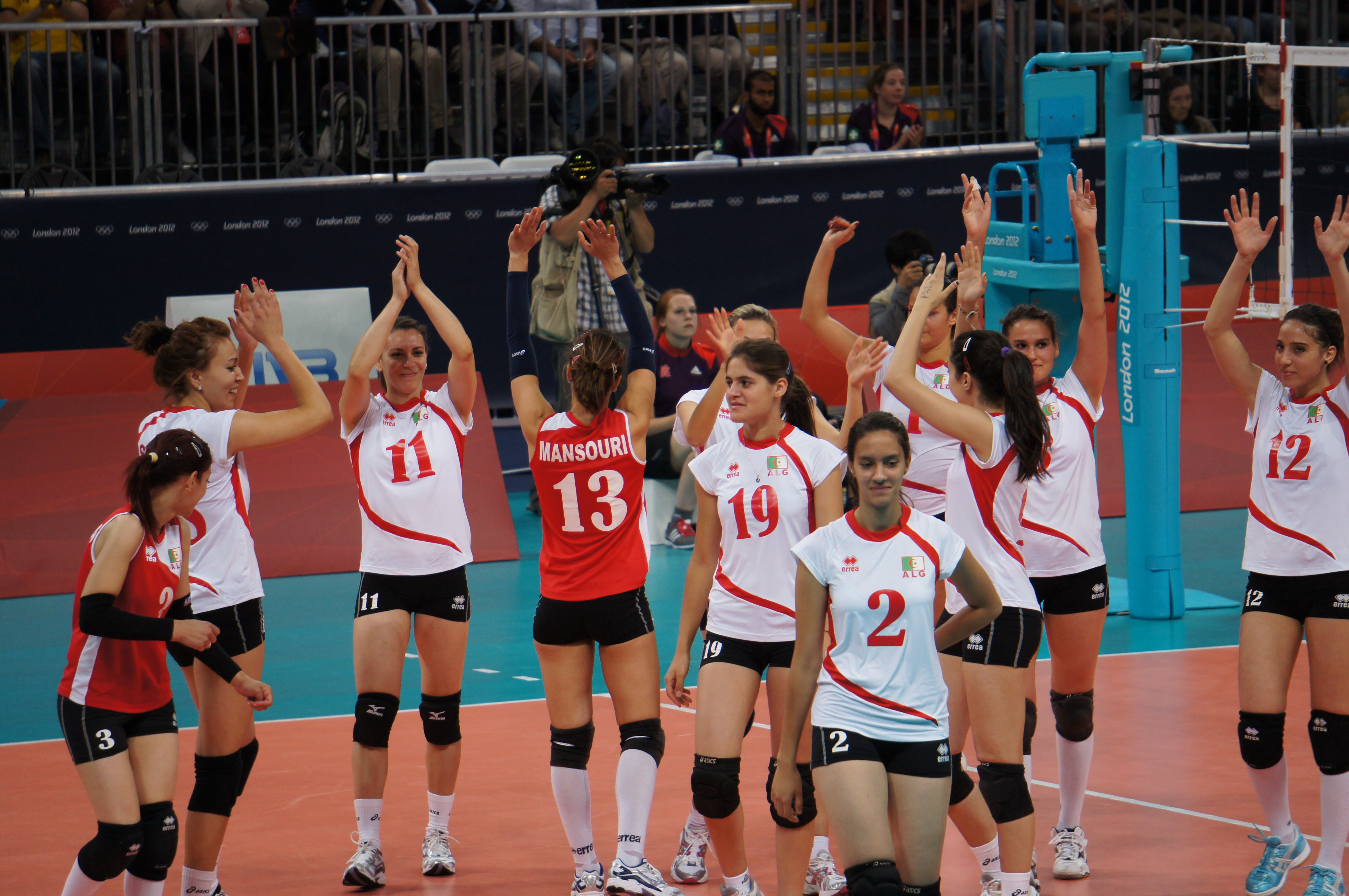 Algeria women's national volleyball team at the 2012 Summer Olympics